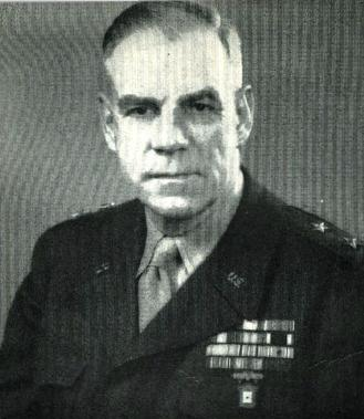 Julian Sommerville Hatcher (June 26, 1888 – December 4, 1963), was a U.S. Army major general, noted firearms expert and author of the early twentieth century. He is credited with several technical books and articles relating to military firearms, ballistics, and autoloading weapons.